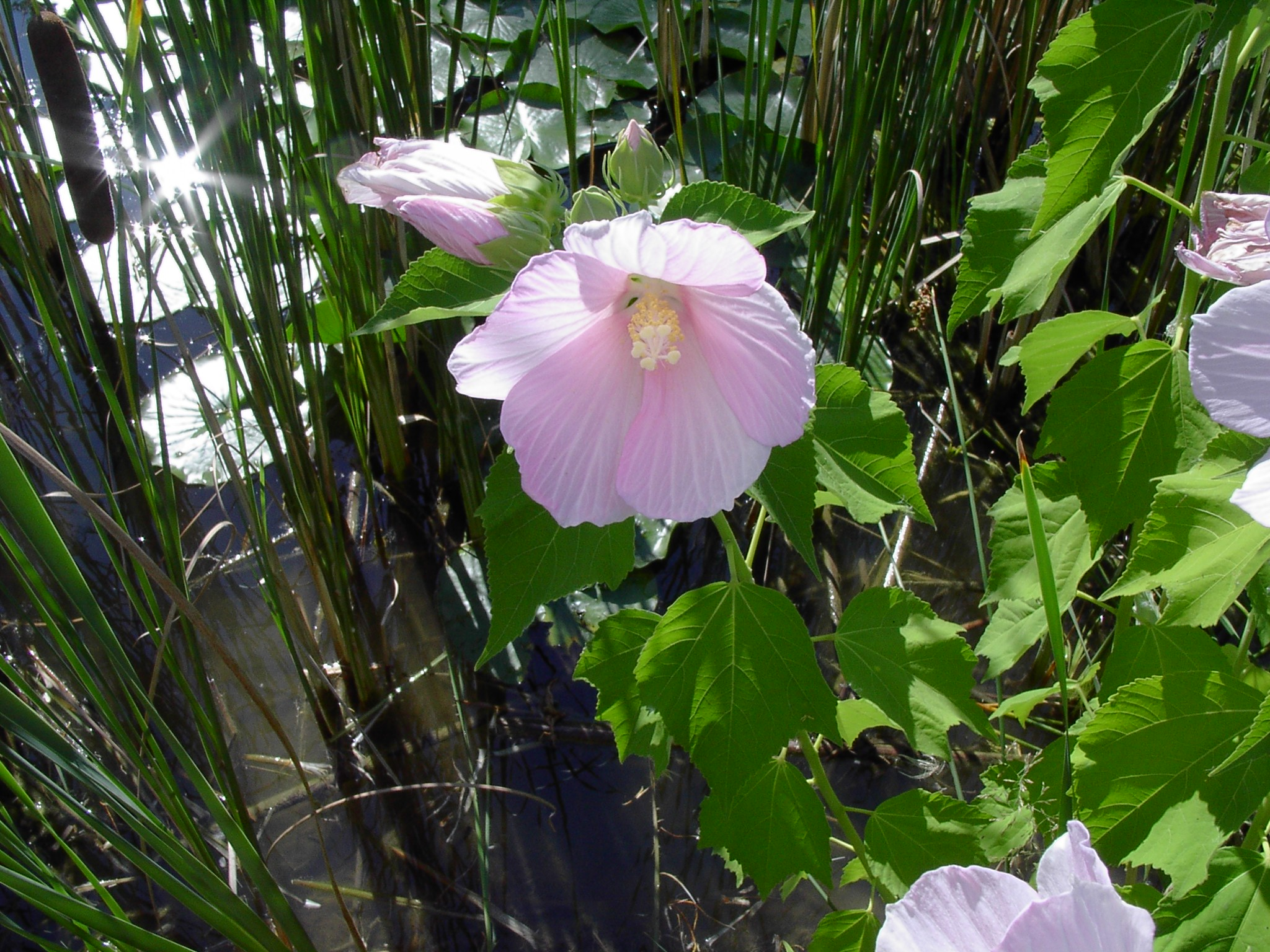 Hibiscus moscheutos (Swamp Rose-mallow), photo taken at Don Valley Brick Works in Toronto, Ontario on Aug. 8, 2003.